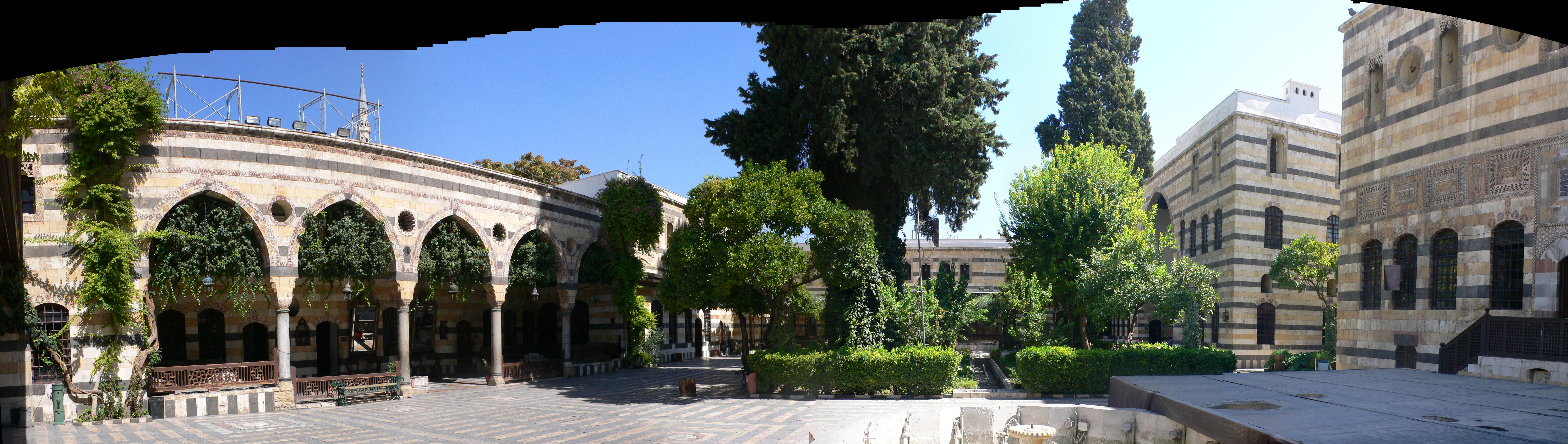 Garden courtyard of the Azm Palace — in Damascus, Syria.